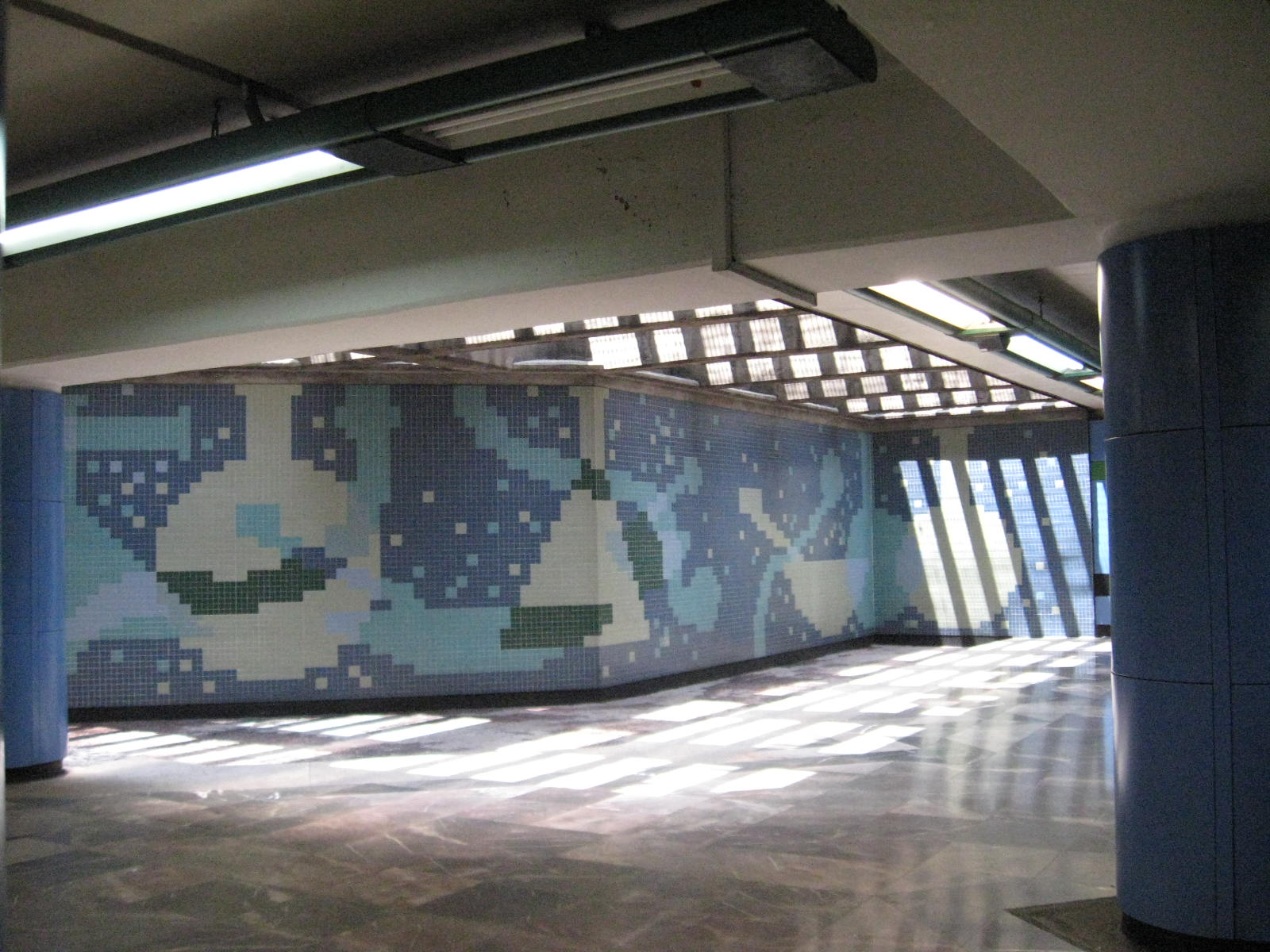 Close of mosaic design on one of the walls of Metro Doctores on Line 8 of the Mexico City Metro system